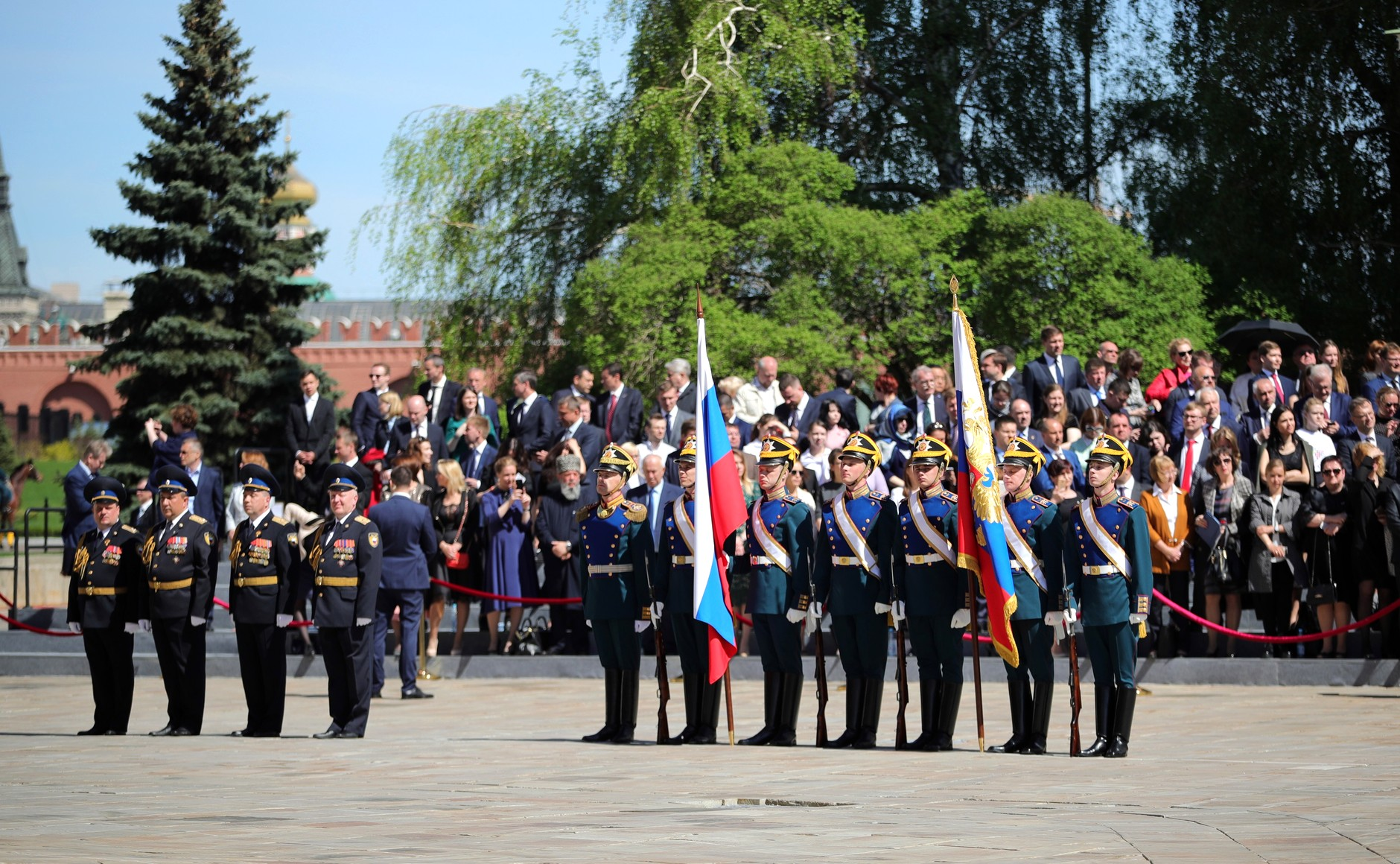 Vladimir Putin has been sworn in as President of Russia (2018-05-07)